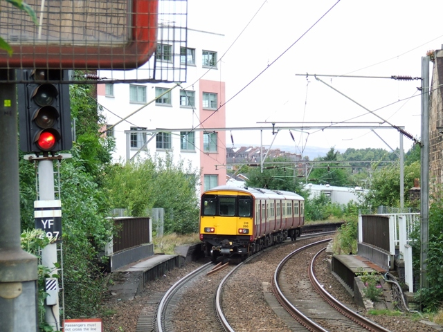 Partickhill railway station Original description: Former Partickhill Station A west bound train, having just left Partick, passes the site of the former Partickhill station which is across Dumbarton Road. The existing station, which is a subway interchange, is currently undergoing extensive remodelling.